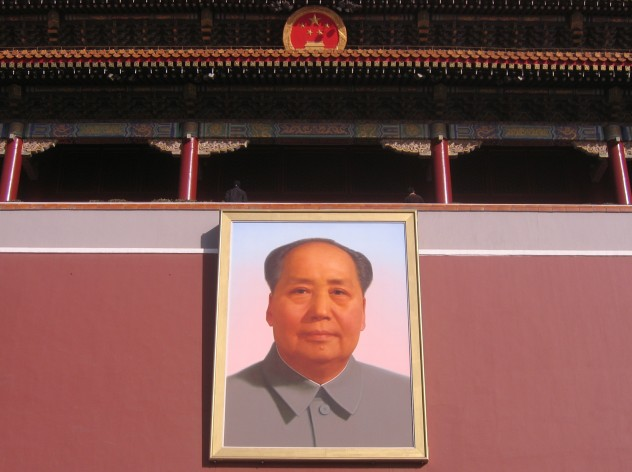 Chairman Mao's personality cult lives on as exemplified in this outdoor picture. Canadian author Troy Parfitt traveled extensively in China to get source material for his book Why China Will Never Rule the World.